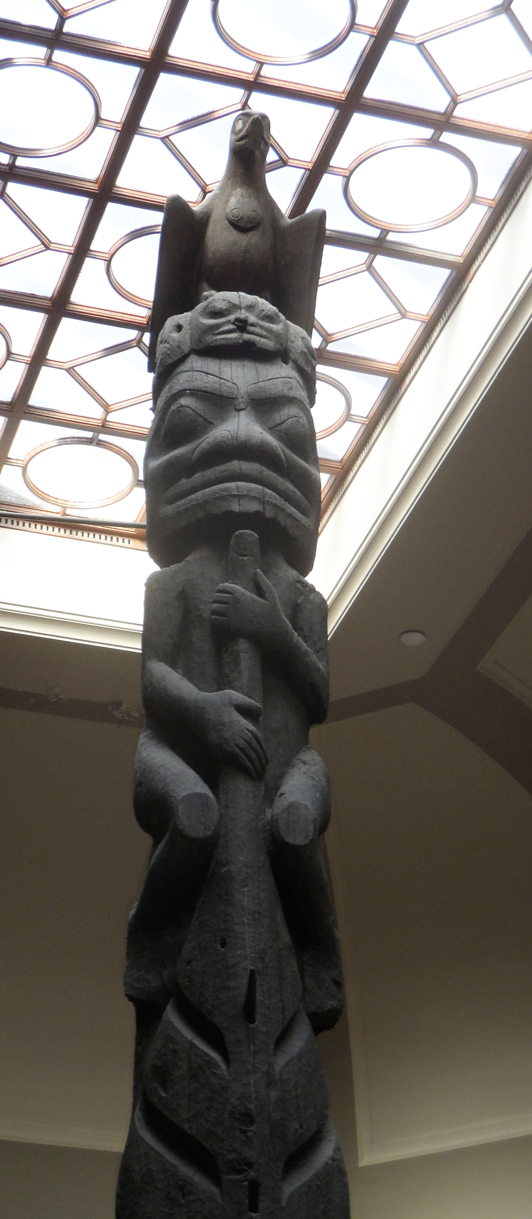 Top and upper section of Sagaween Pole